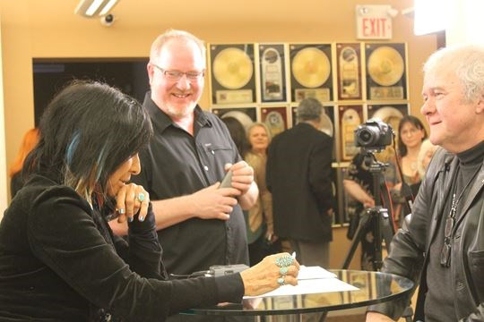 This image, taken at the grand opening of True North Gallery in March 2016, shows Canadian singer-songwriters Buffy Sainte-Marie and Murray McLauchlan being interviewed by the gallery's president, Geoff Kulawick.